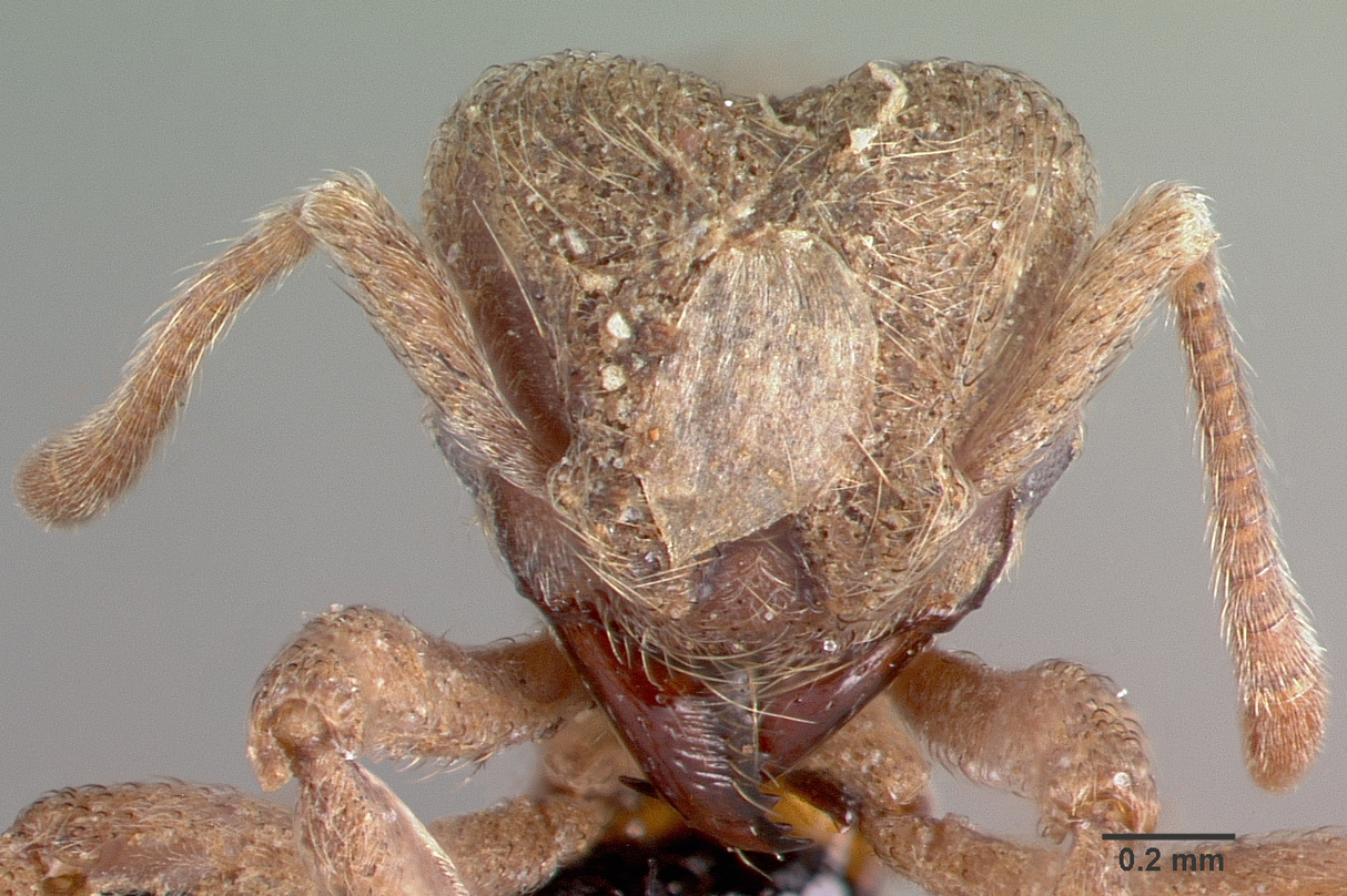 Head view of ant Sericomyrmex amabilis specimen casent0039728.